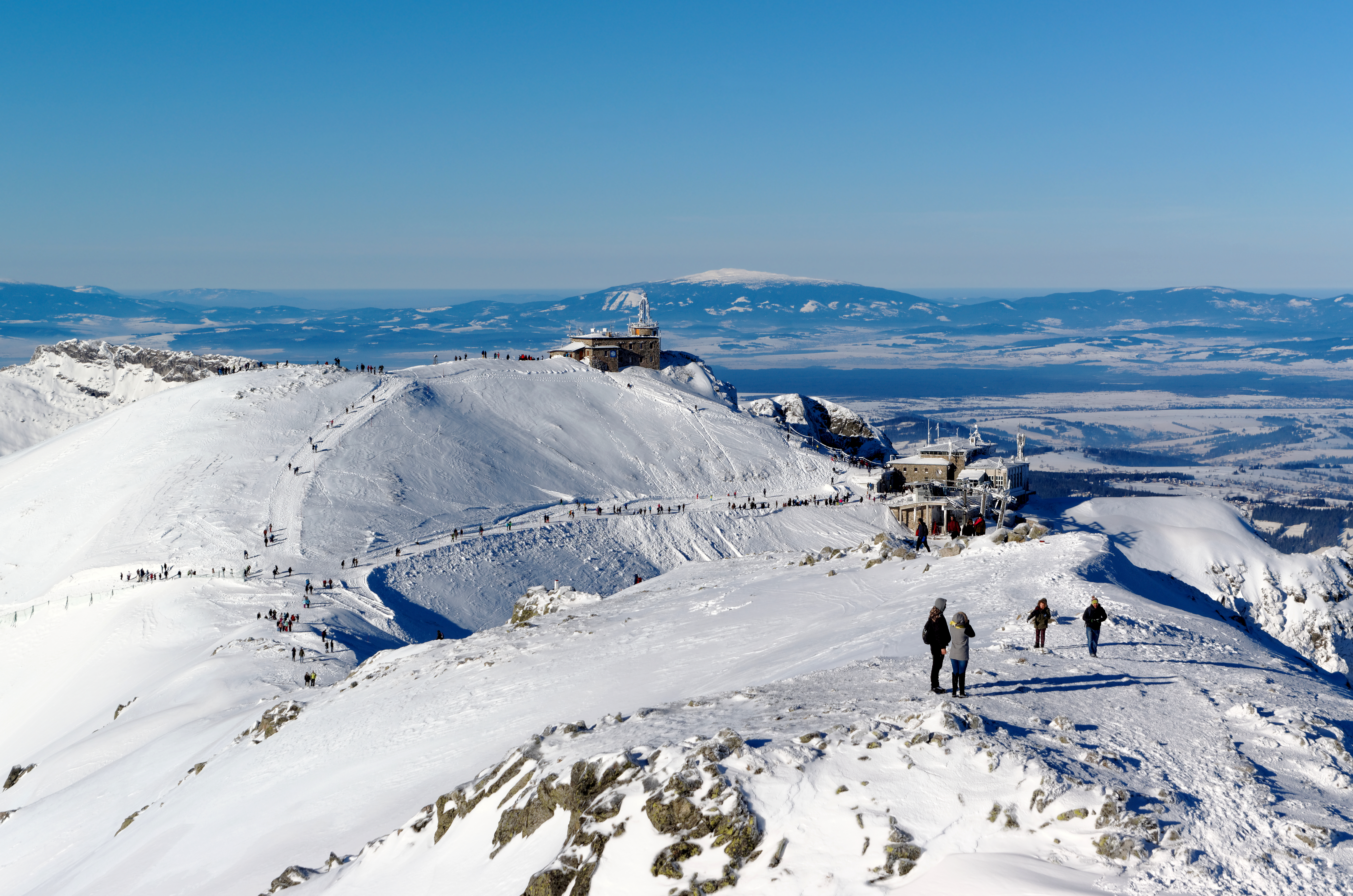 Kasprowy Wierch in Tatra Mountains